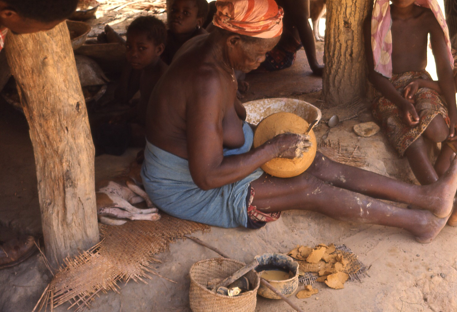 Photo taken May 16, 1968. Here, she's scraping the excess clay off the bottom of the pot. It was a hot, humid day; note sleeping Basenji puppy behind her. Her tools are mostly in the basket in the foreground. The bottom of the pot is tapered to be used over a fire resting on stones or other supports.